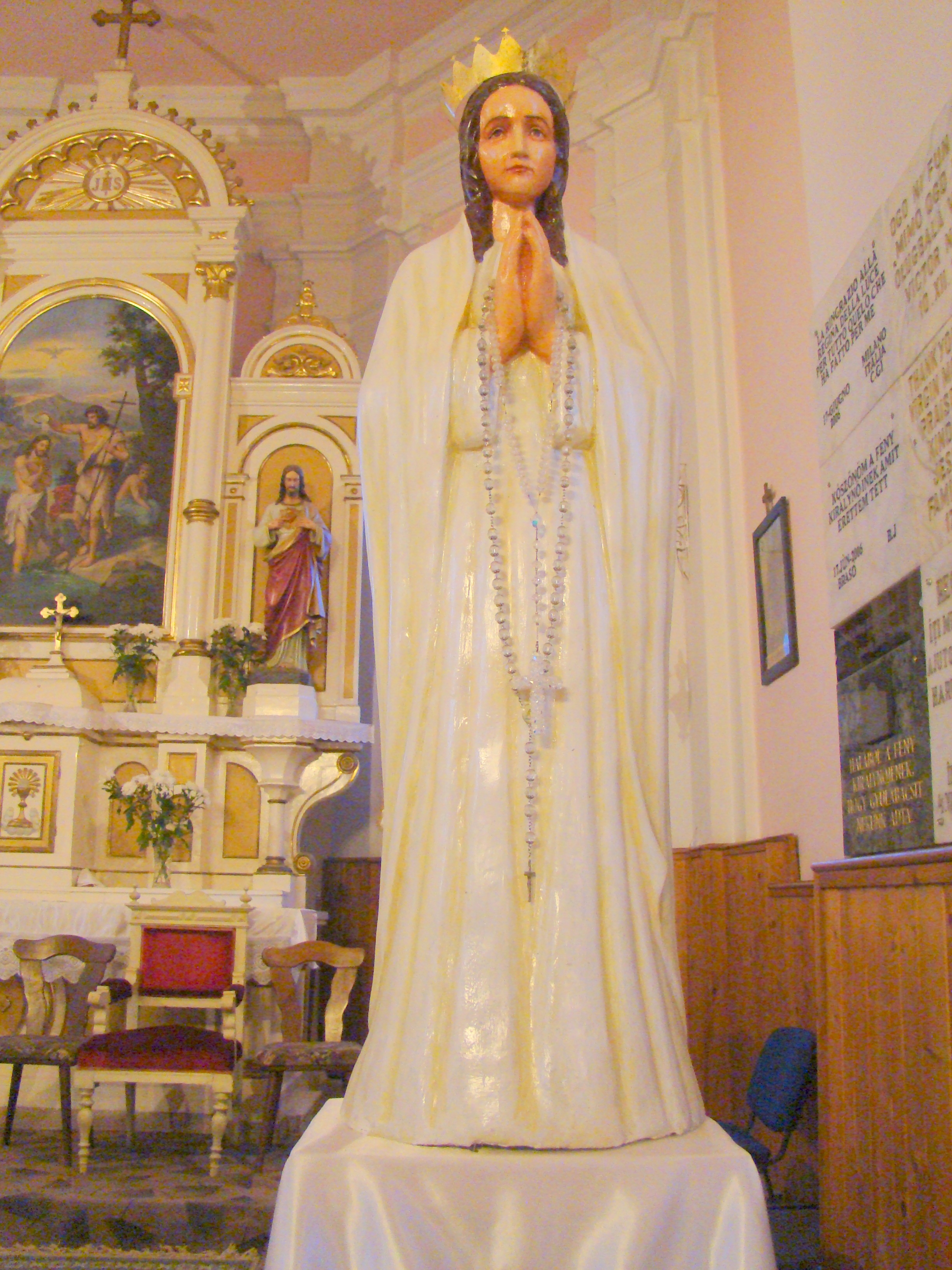 Roman Catholic church in Seuca, Mureş county, Romania